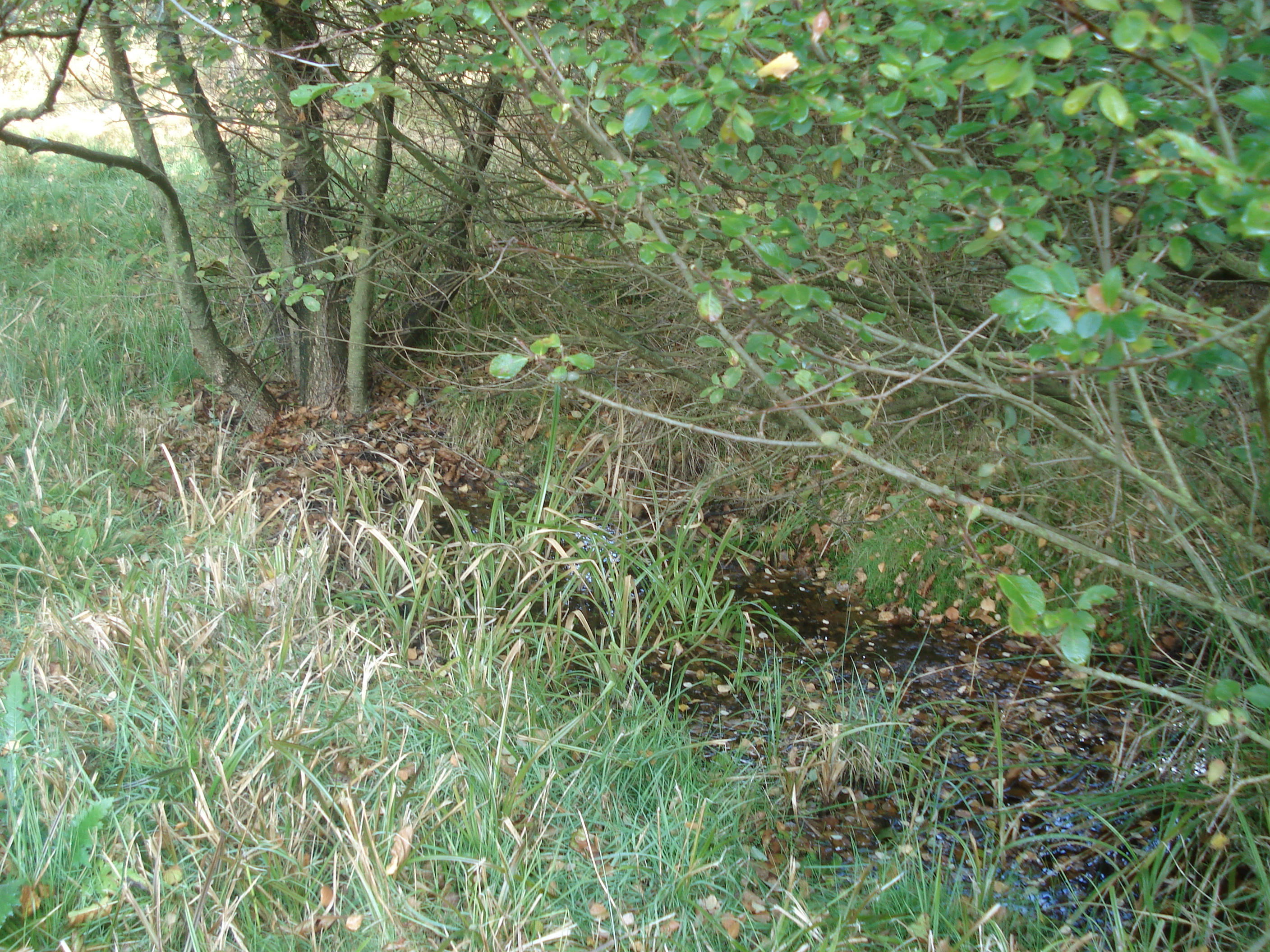 National nature reserve Hojkovské rašeliniště in Jihlava District, Czech Republic